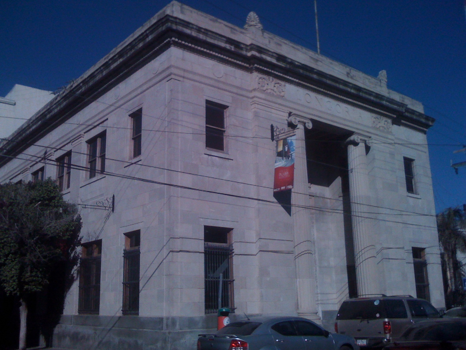 Banco Longoria de Nuevo Laredo